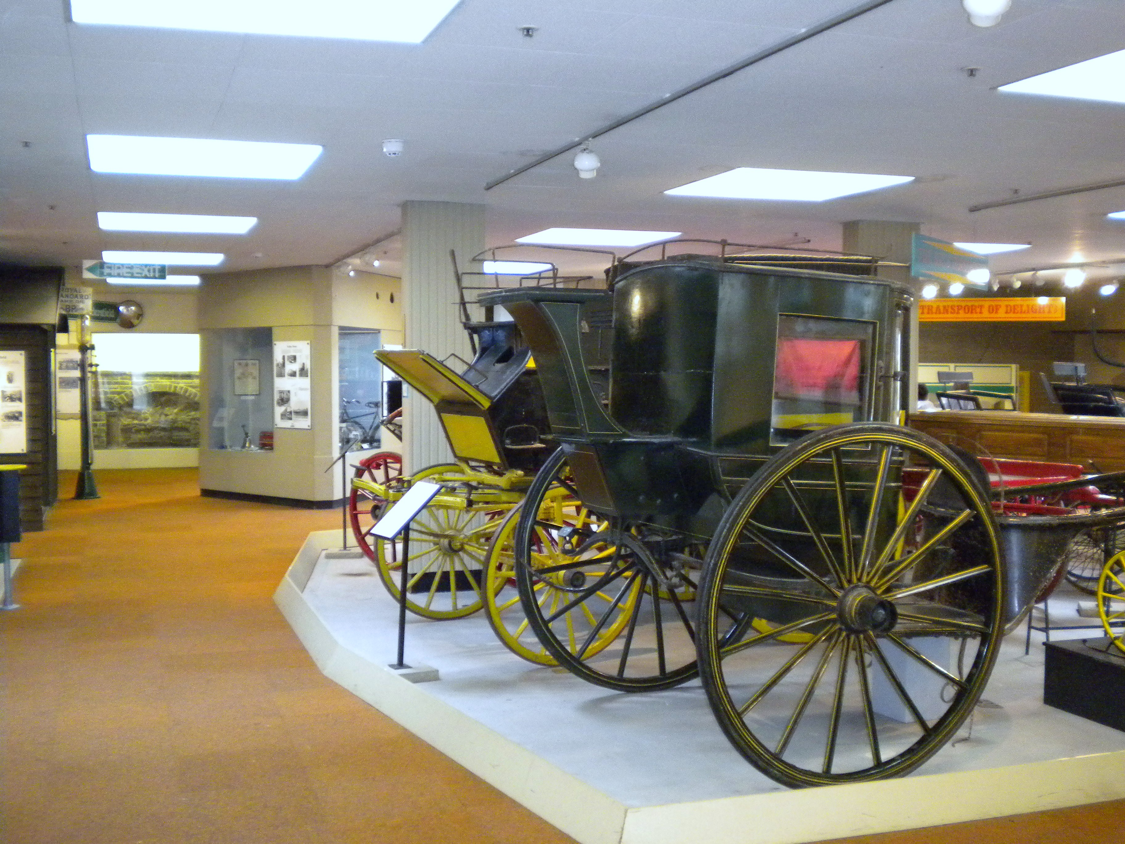 Local transport manufacturing display at Tolson Museum, Ravensknowle Park, Huddersfield, West Yorkshire, England.